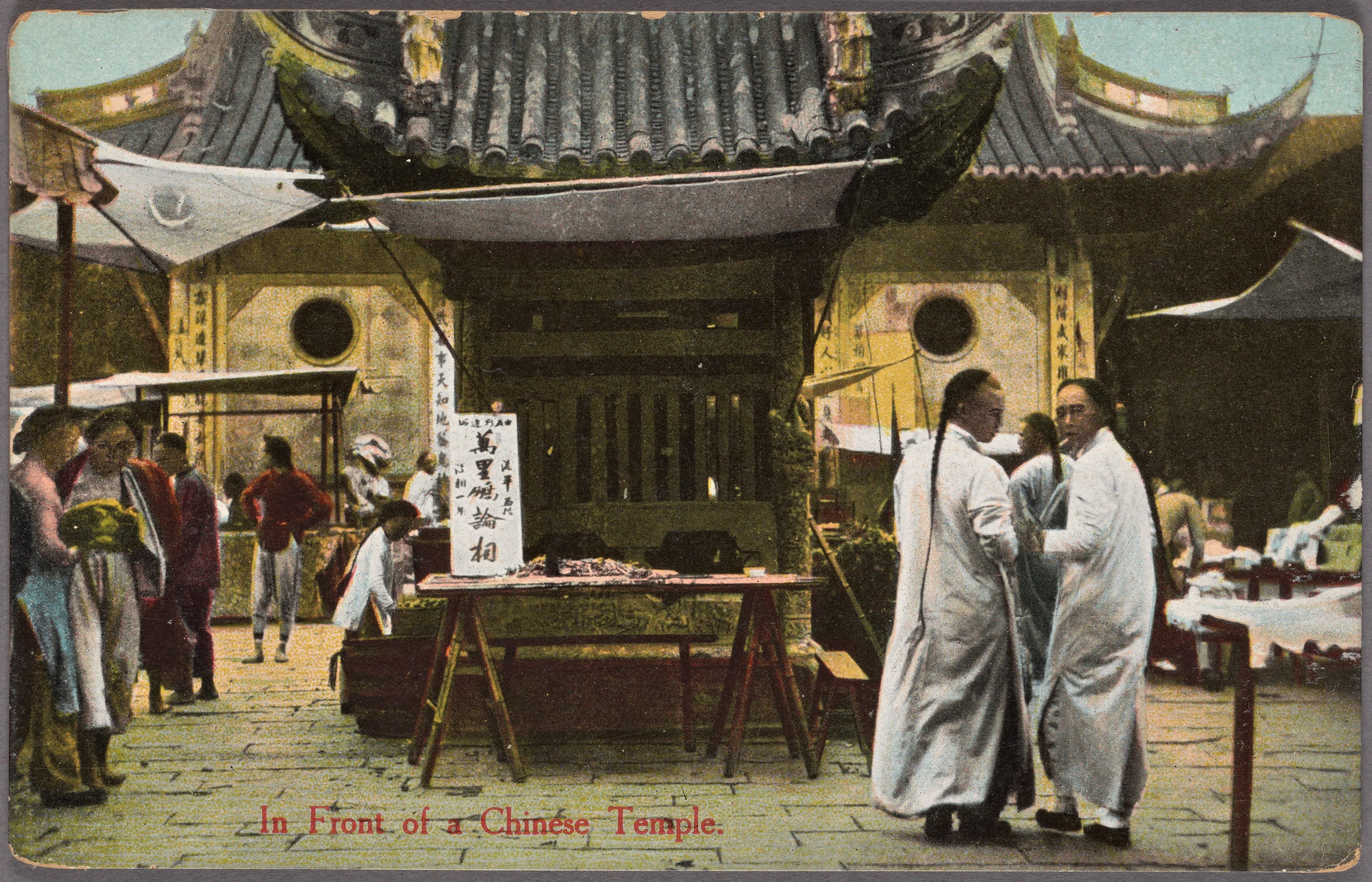 "Chrom. Edit. Kingshill, Shanghai. No. 136"--printed on verso.